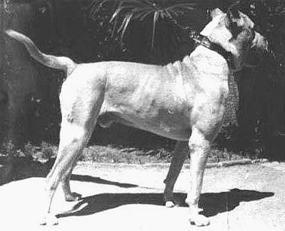 Cordoba Fighting Dog Profile